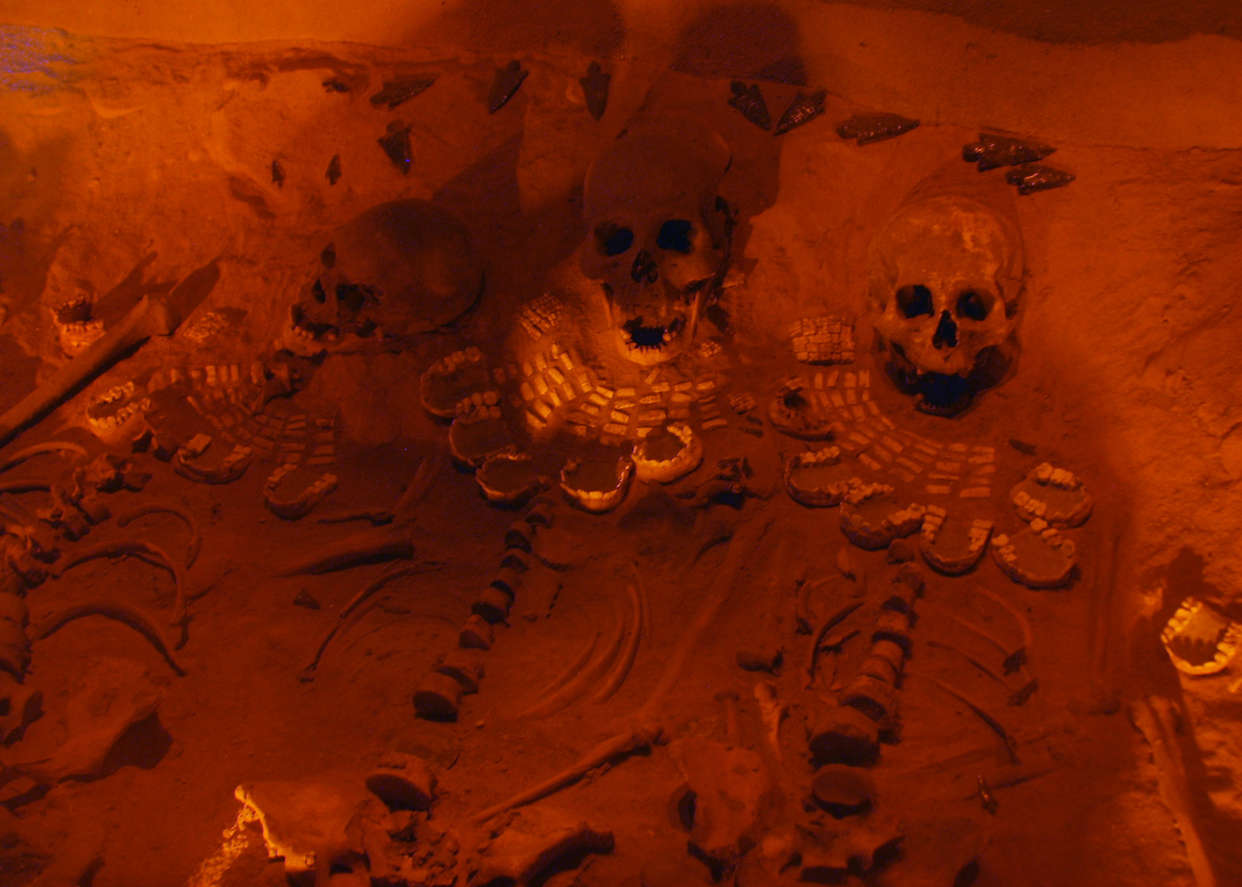 Human sacrifice, found at the foundations of La Ciudadela